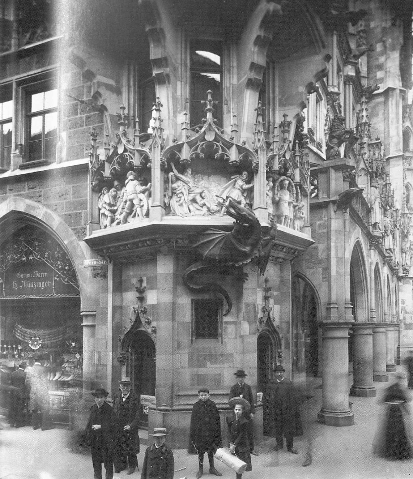 The "Wurmeck", the figure of a dragon at the corner of the Munich City Hall.